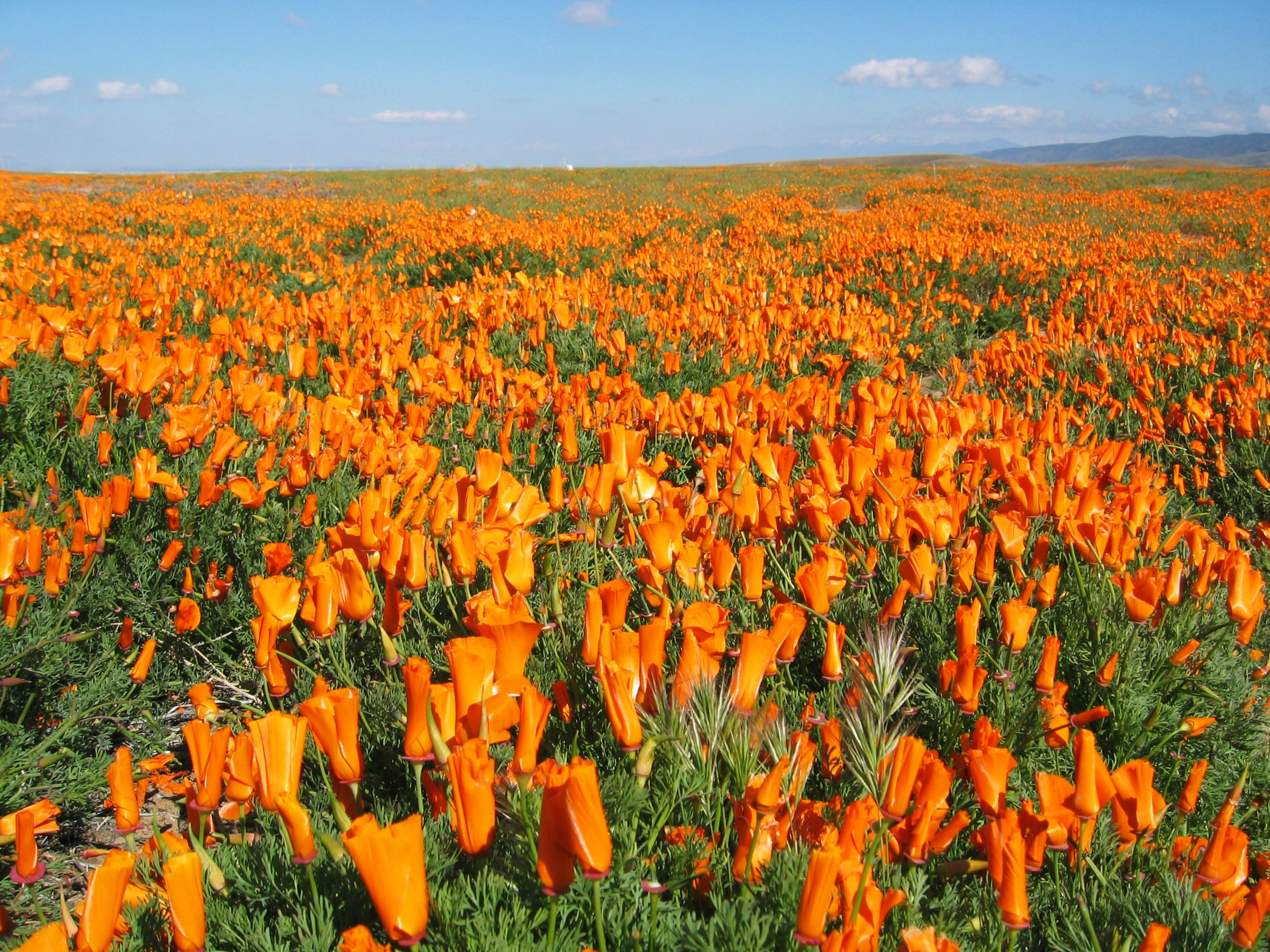 Californian Poppies (Eschscholzia californica), at the Antelope Valley California Poppy Reserve, in Los Angeles County, California